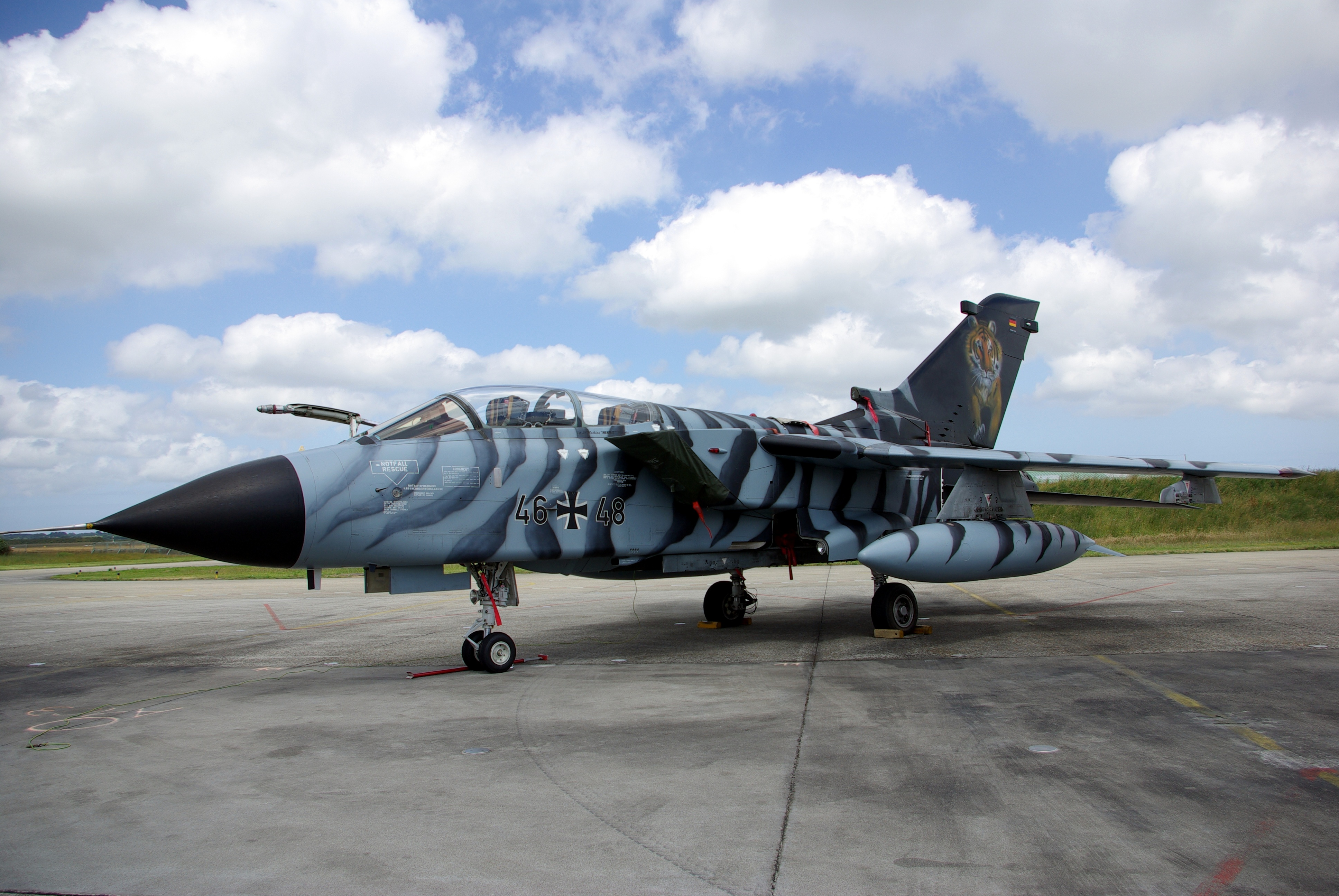 The Tornado ECR of the German Air Force registered 43+48 at the Tiger Meet Air show in 2008 on the NAS Landivisiau (France).